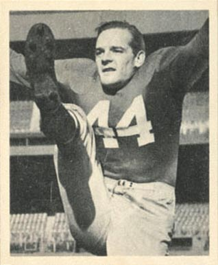 American football player Frank Reagan on a 1948 Bowman card.